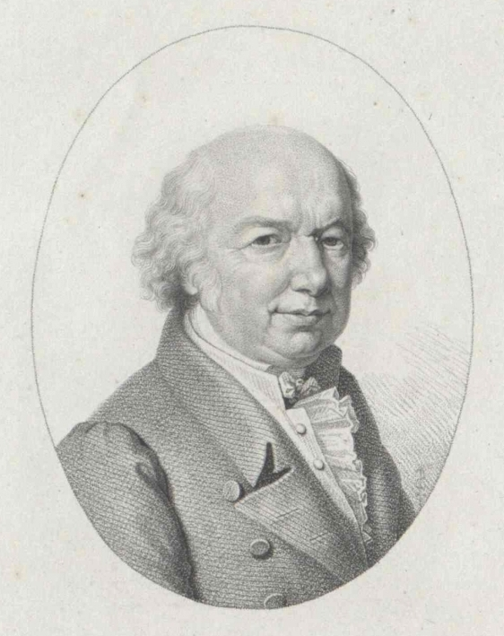 Portrait of Karl August Böttiger (1760-1835)